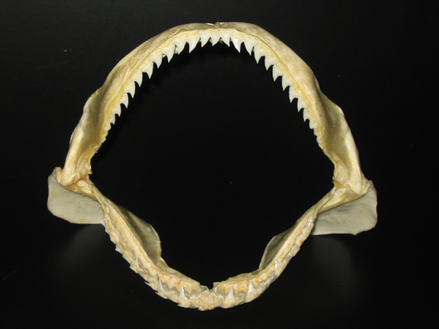 Prionace glauca (Blue shark) jaw.